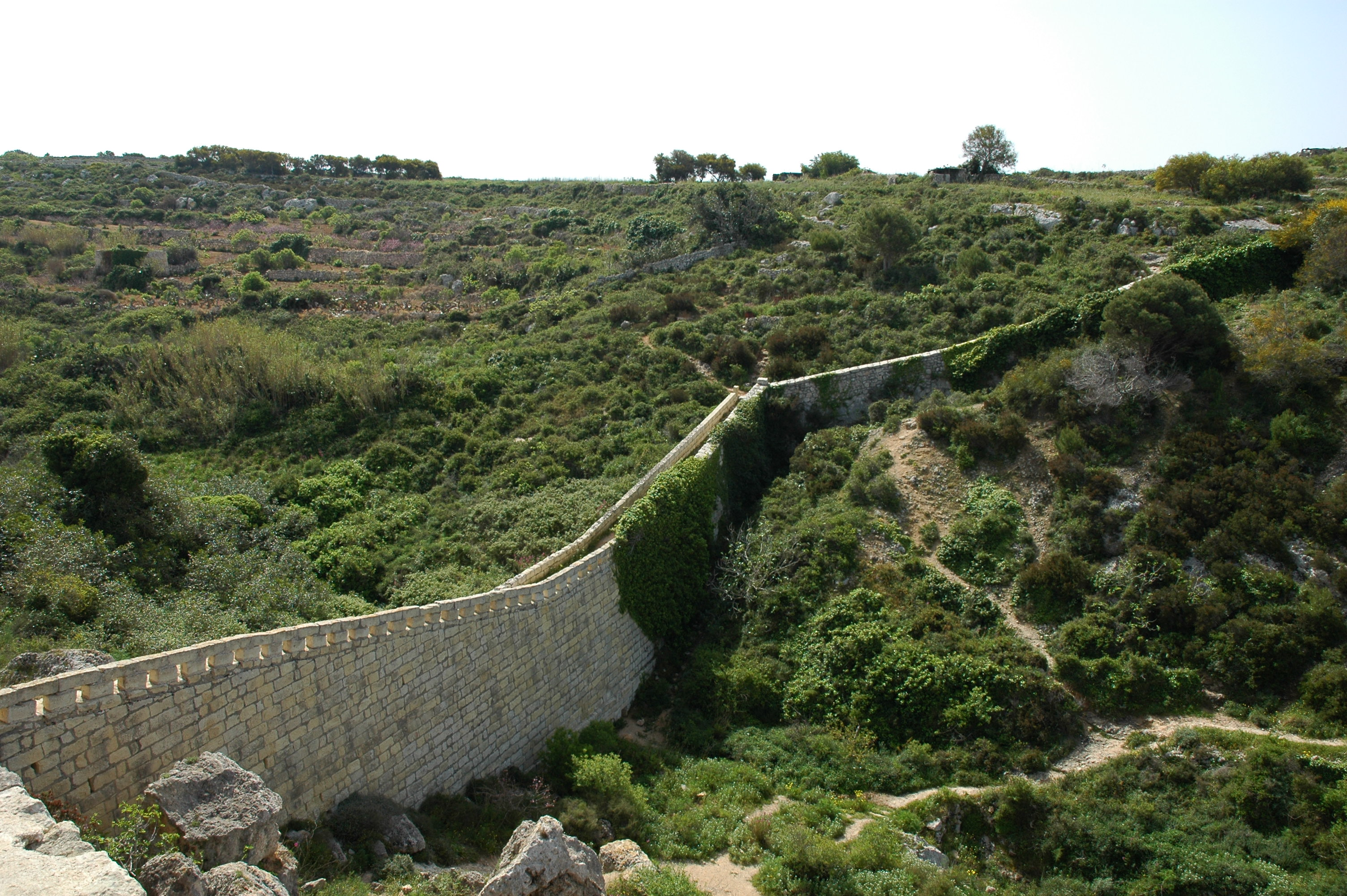 Victoria Lines right on the boundry between Mġarr (rh) and Rabat (lh), Malta